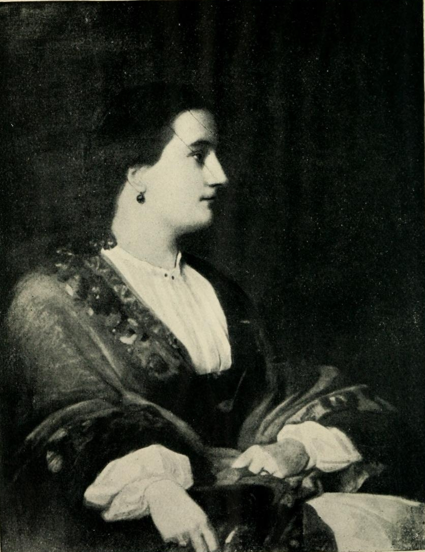 Lucy, Lady Duff-Gordon by Henry W. Phillips (c. 1851)